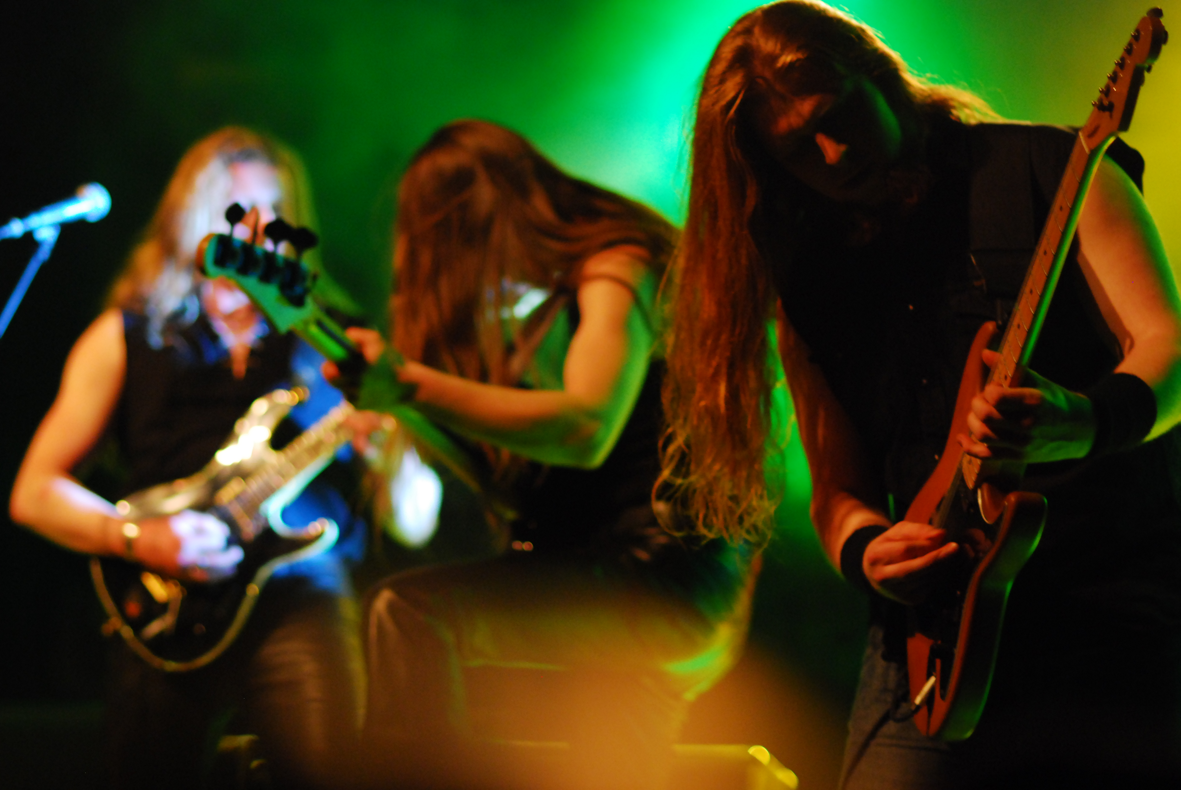 German power metal music group Seventh Avenue live at Elements of Rock, Switzerland.